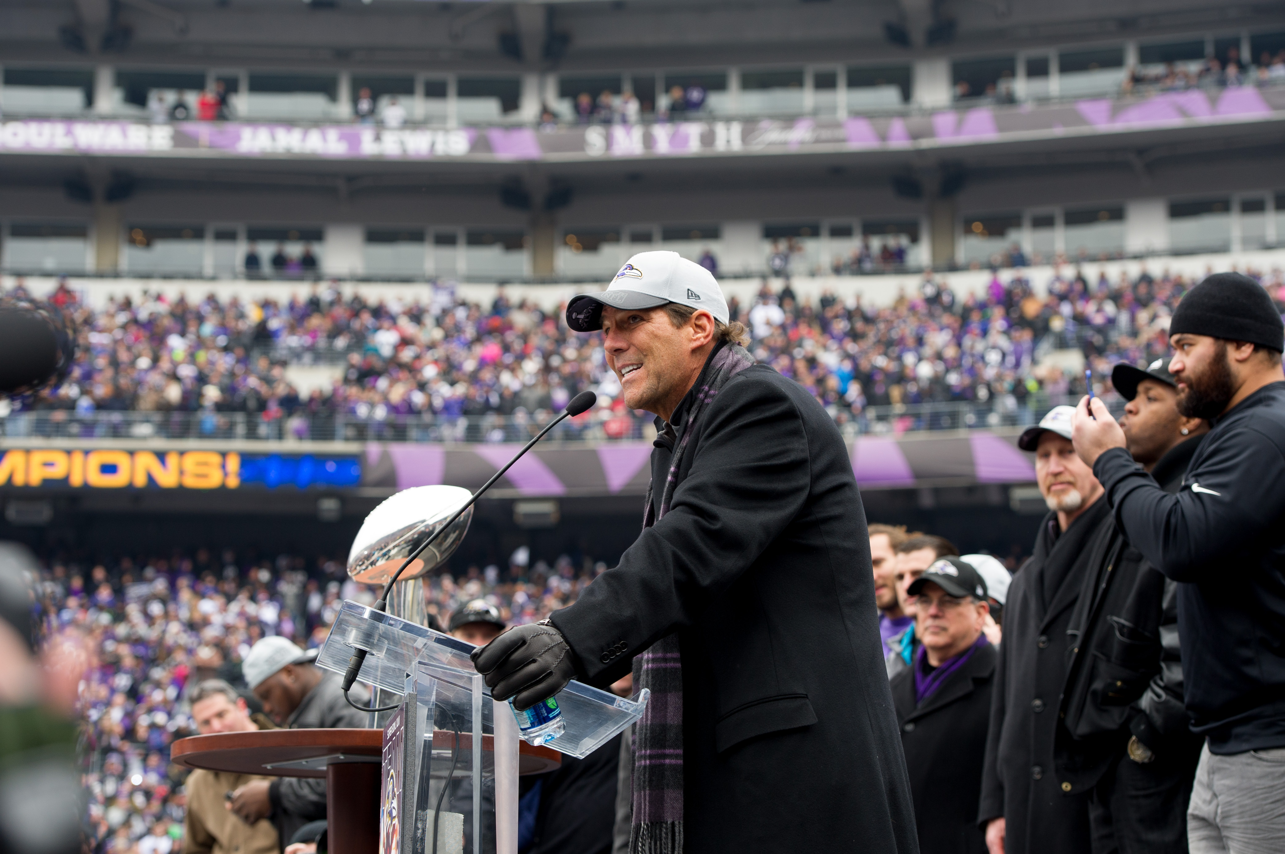 Ravens owner Steve Bisciotti speaks at the organization's homecoming celebration at M&T Bank Stadium in Baltimore, Maryland.